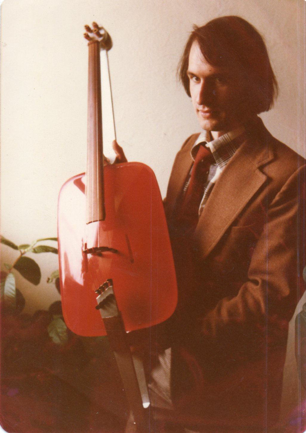 English